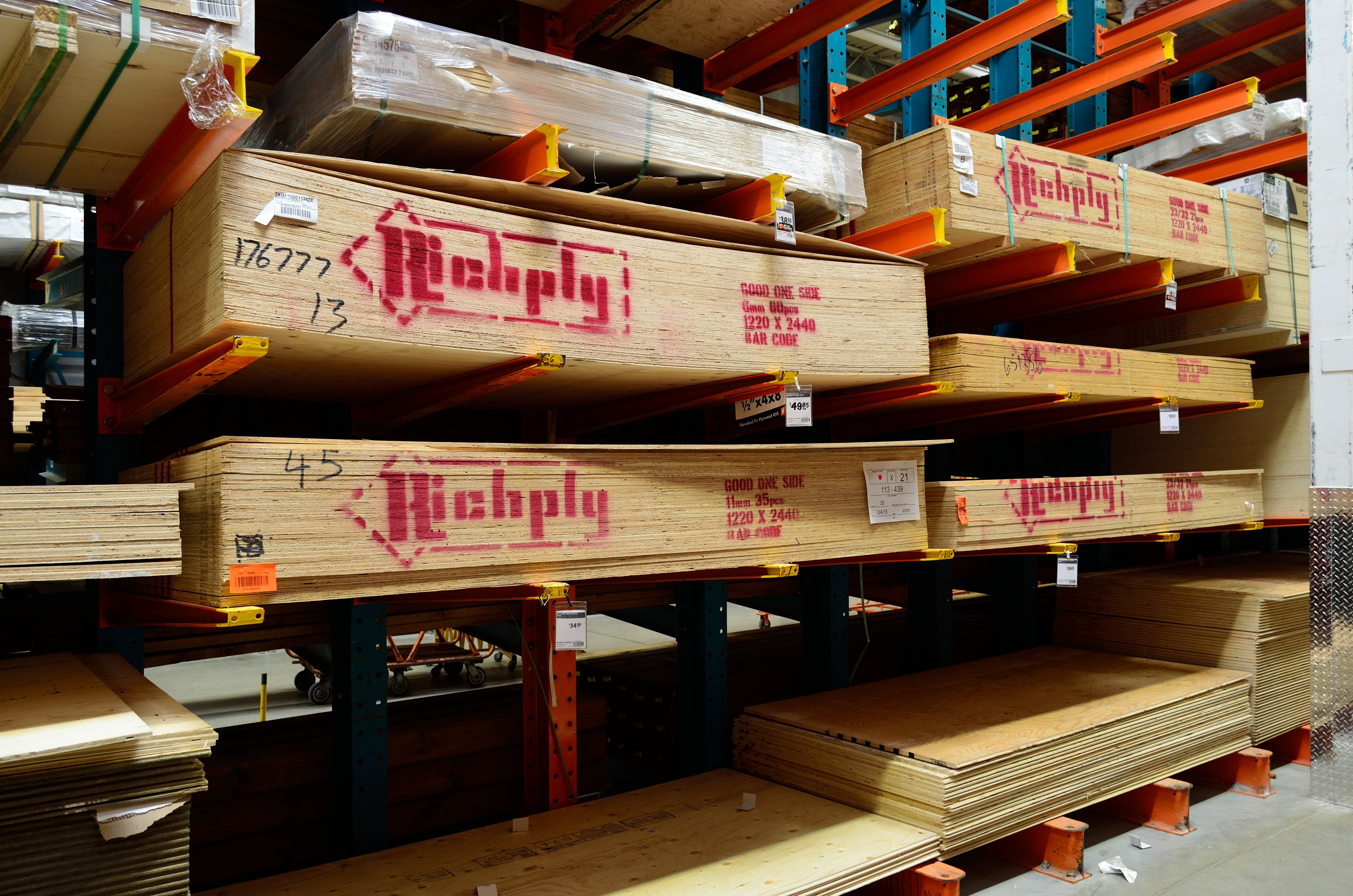 Engineered wood selection inside a Home Depot.